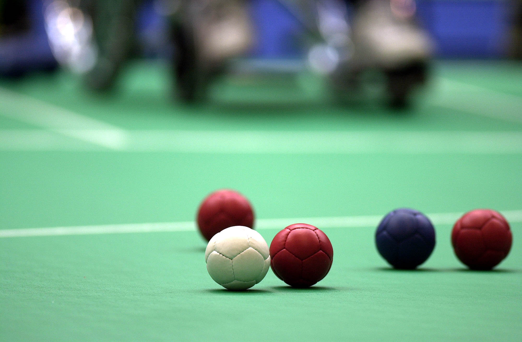 Close up of boccia equipment (balls, playing field) during 2000 Sydney Paralympic Games match